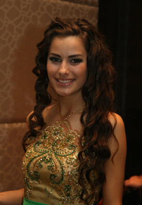 Miss Ukraine 2007 Lika Roman in Miss World 07, Sanya, China